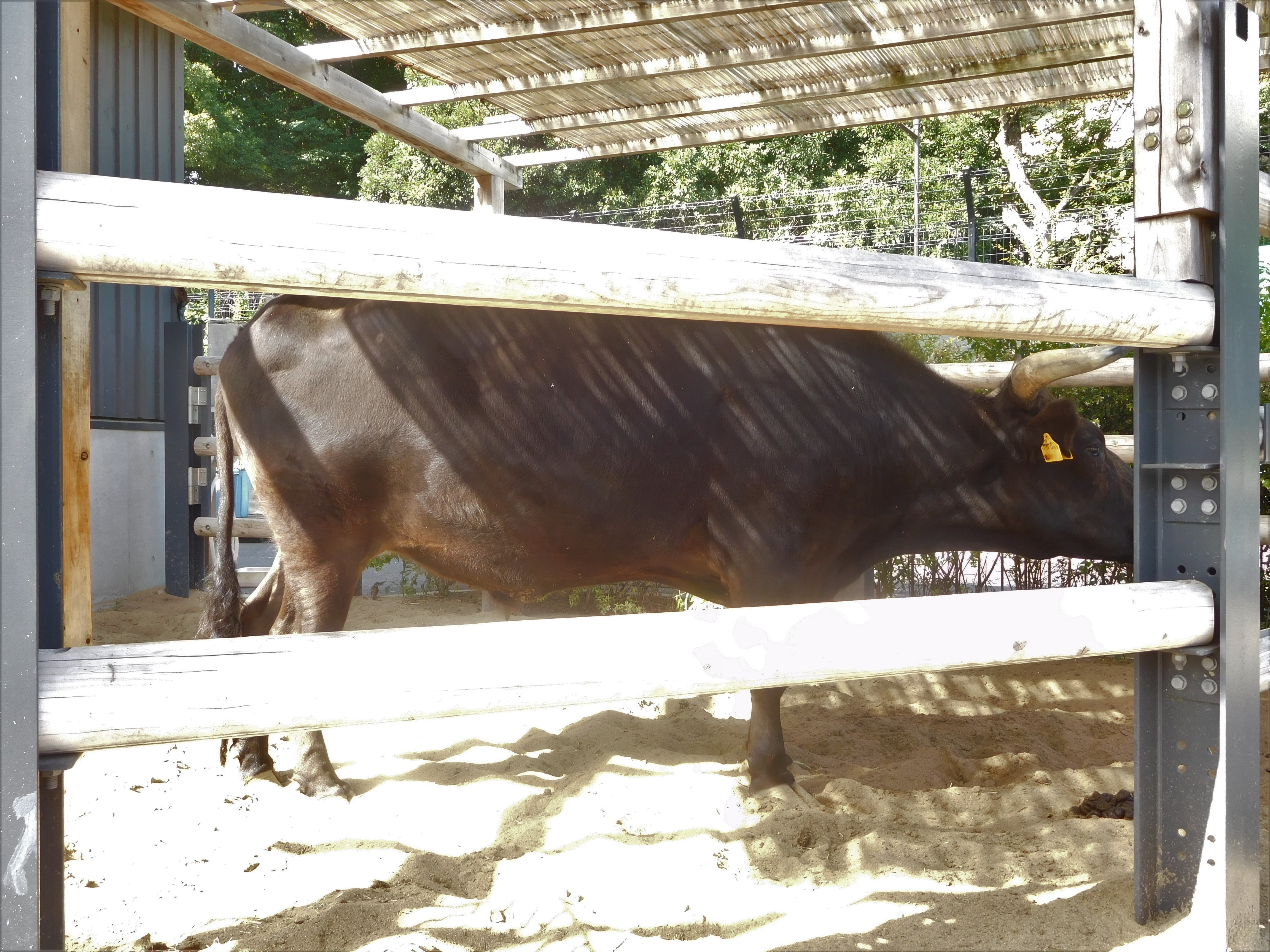 This is Mishima cattle in Ueno Zoo, Tokyo, Japan. His name is Hatsuharu. His birthday is December 31, 2007.